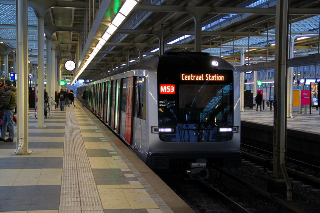 GVB metro M5 109/110 on line 53 at the trainstation Amstel.